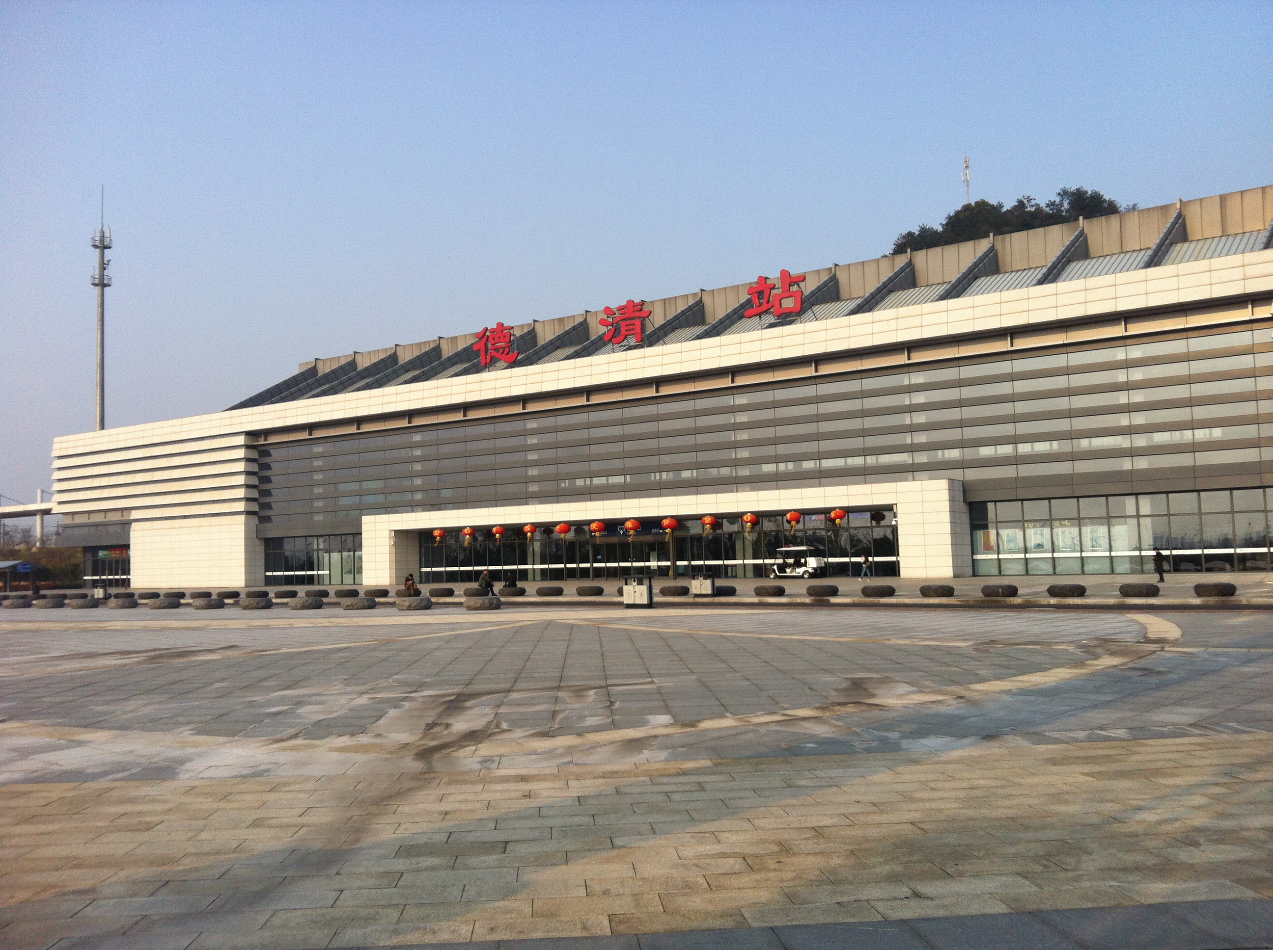 Facade of Deqing Railway Station